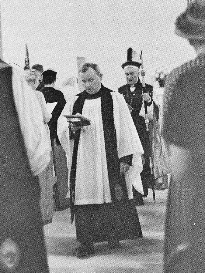 William A. Dimmick, Dean of St. Mary's Episcopal Cathedral in Memphis 1960-1970